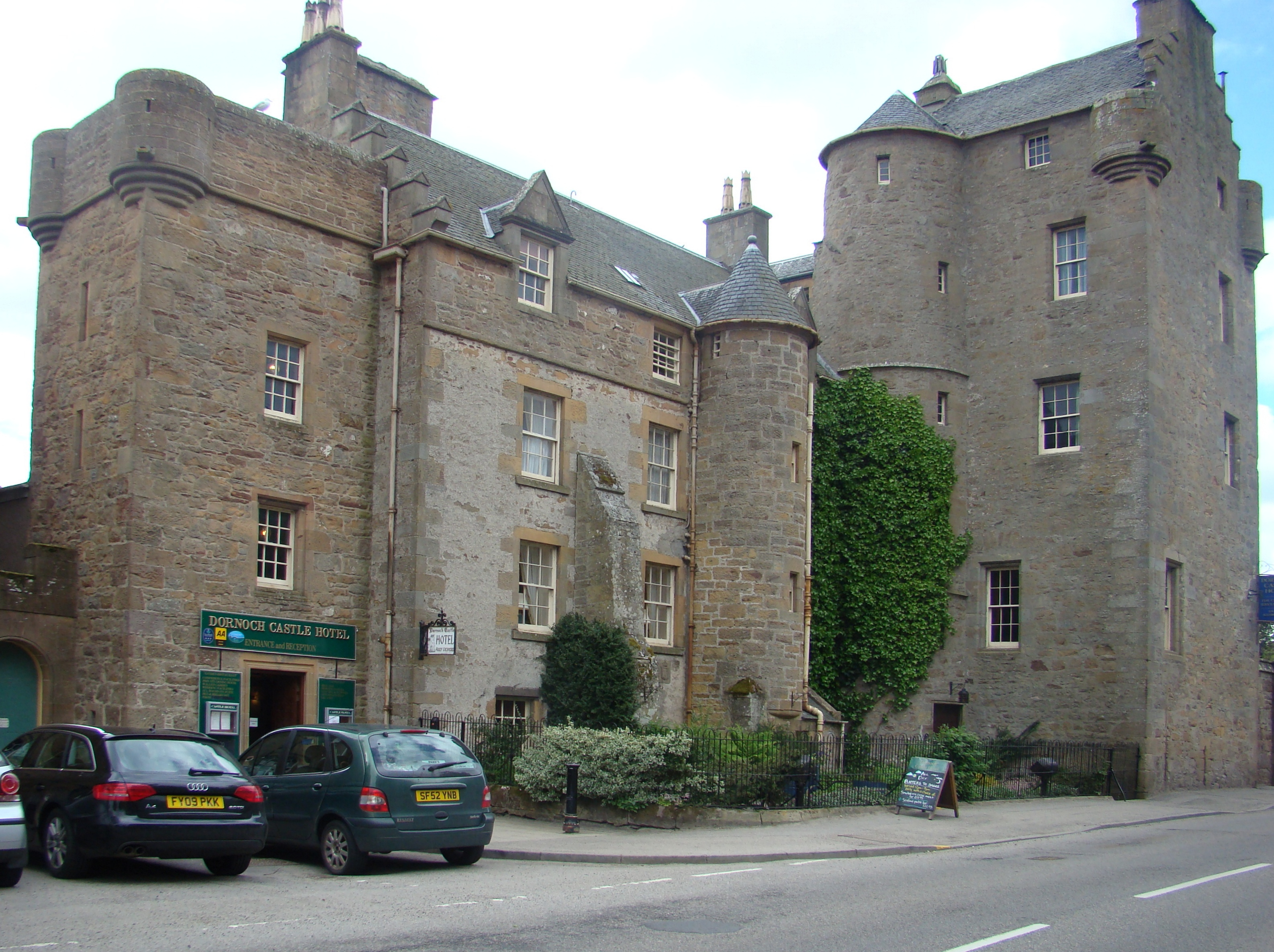 Dornoch Castle